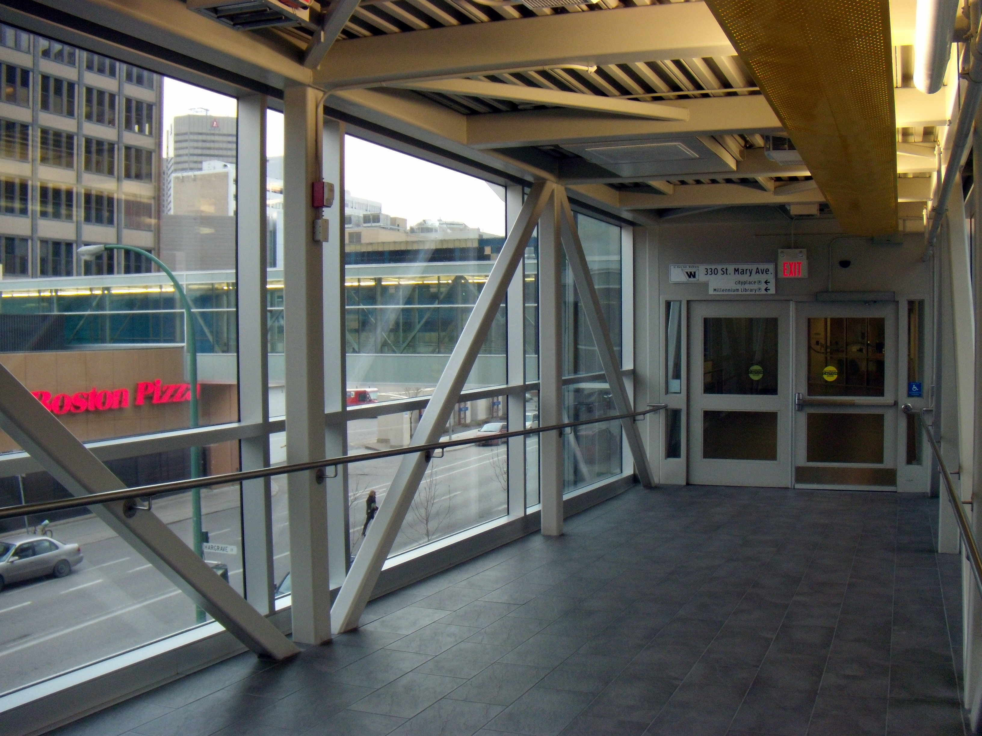 Winnipeg Walkway skywalk interior showing section spanning St Mary Ave